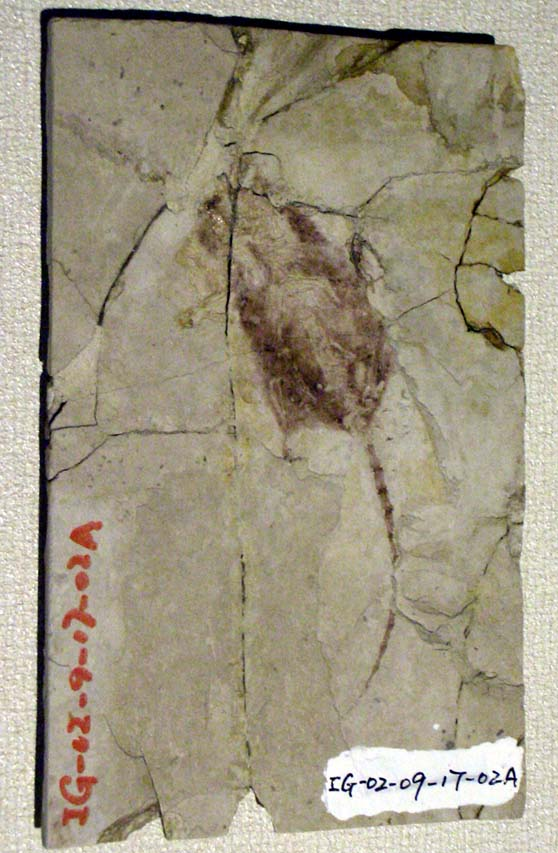 Jeholodens jenkinsi fossil displayed in Hong Kong Science Museum